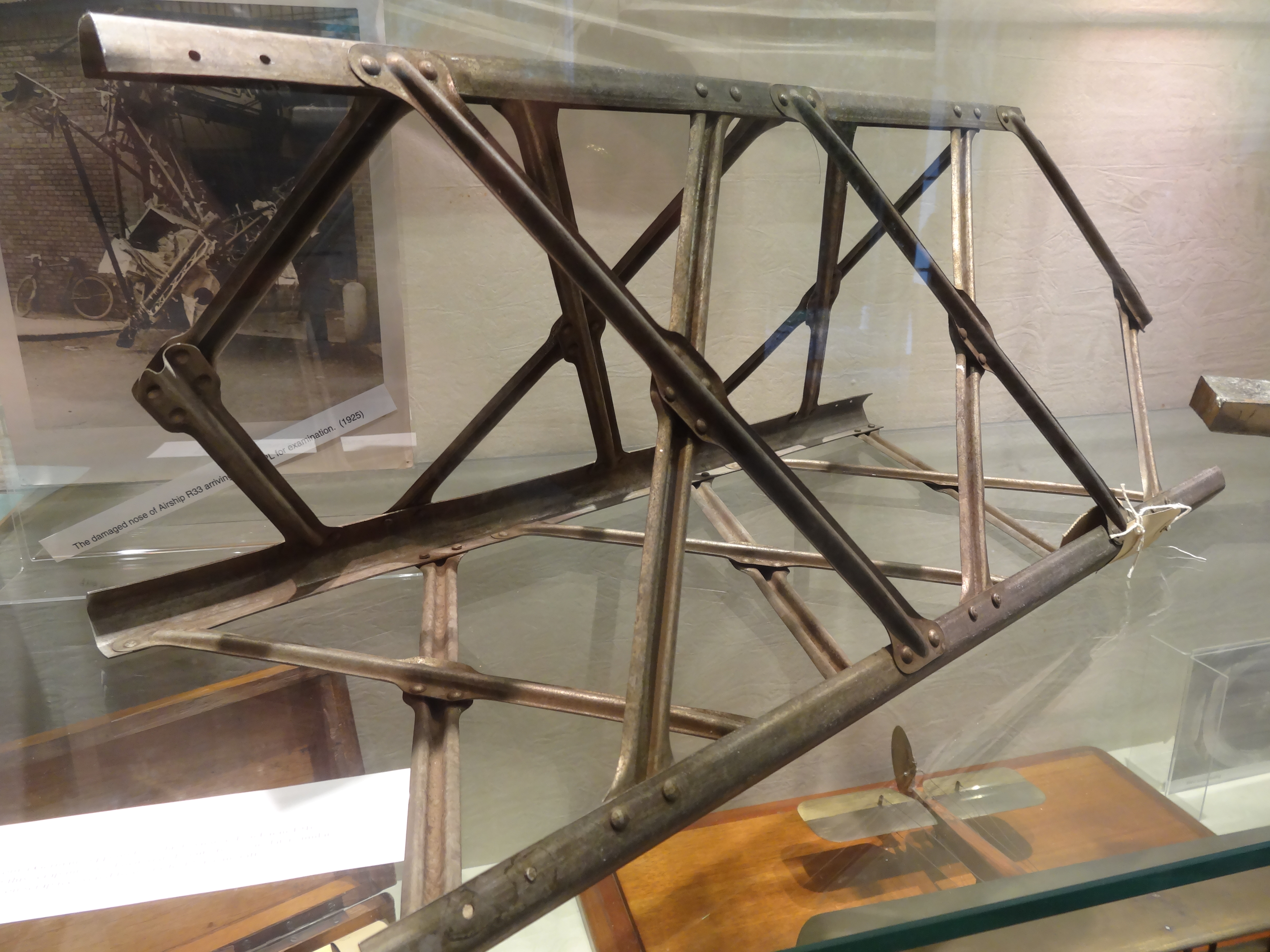 from the museum at Bushy Park House, with thanks to the NPL for holding an open day. Girder from zeppelin shot down in 1916